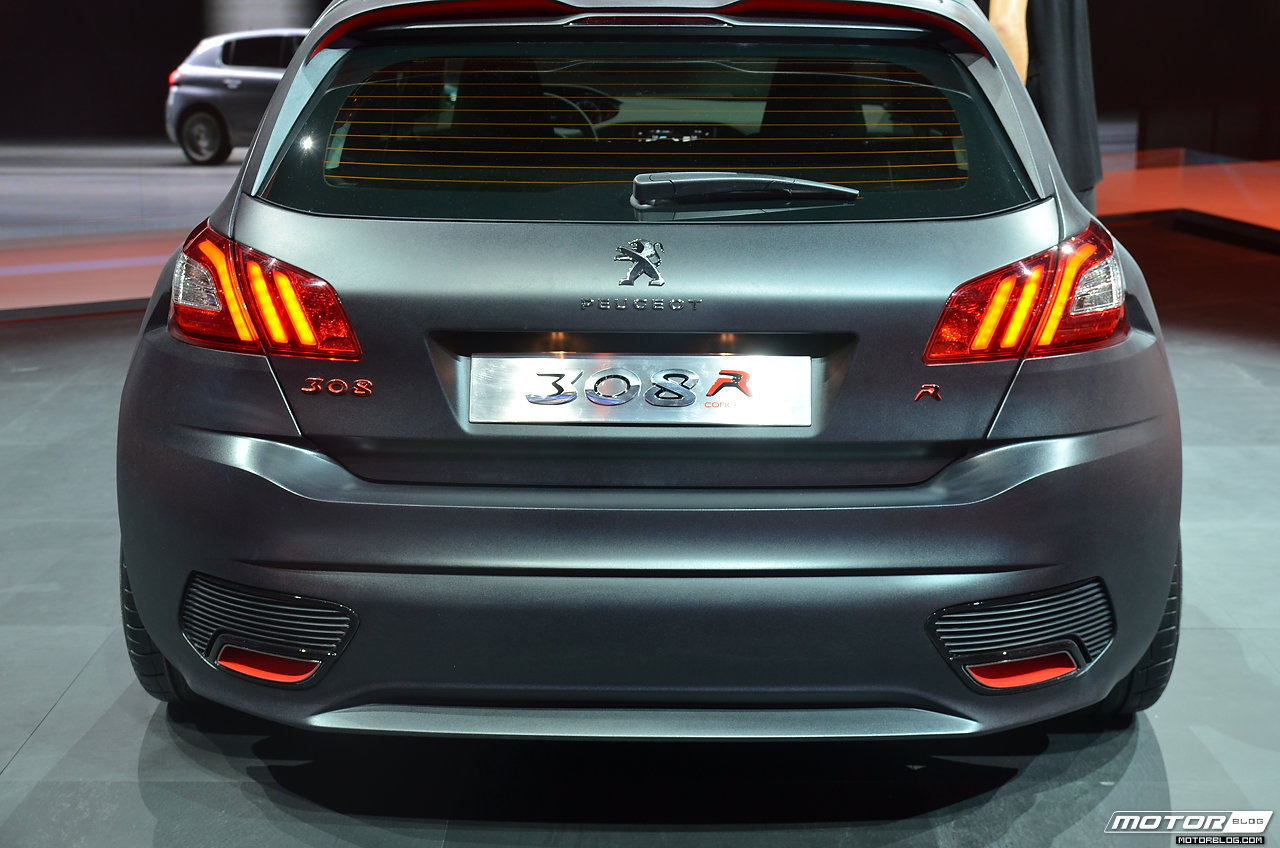 IAA Frankfurt 2013: Peugeot 308 R Concept / Photo: Raphael Jahn ______________________ Please feel free to use this image for FREE under the Creative Commons (CC) licence. However, if you use the image, pls set a backlink to and give credit as following: "Image: ". For highres images or any other inquiries pls contact mailto: . Thanks.